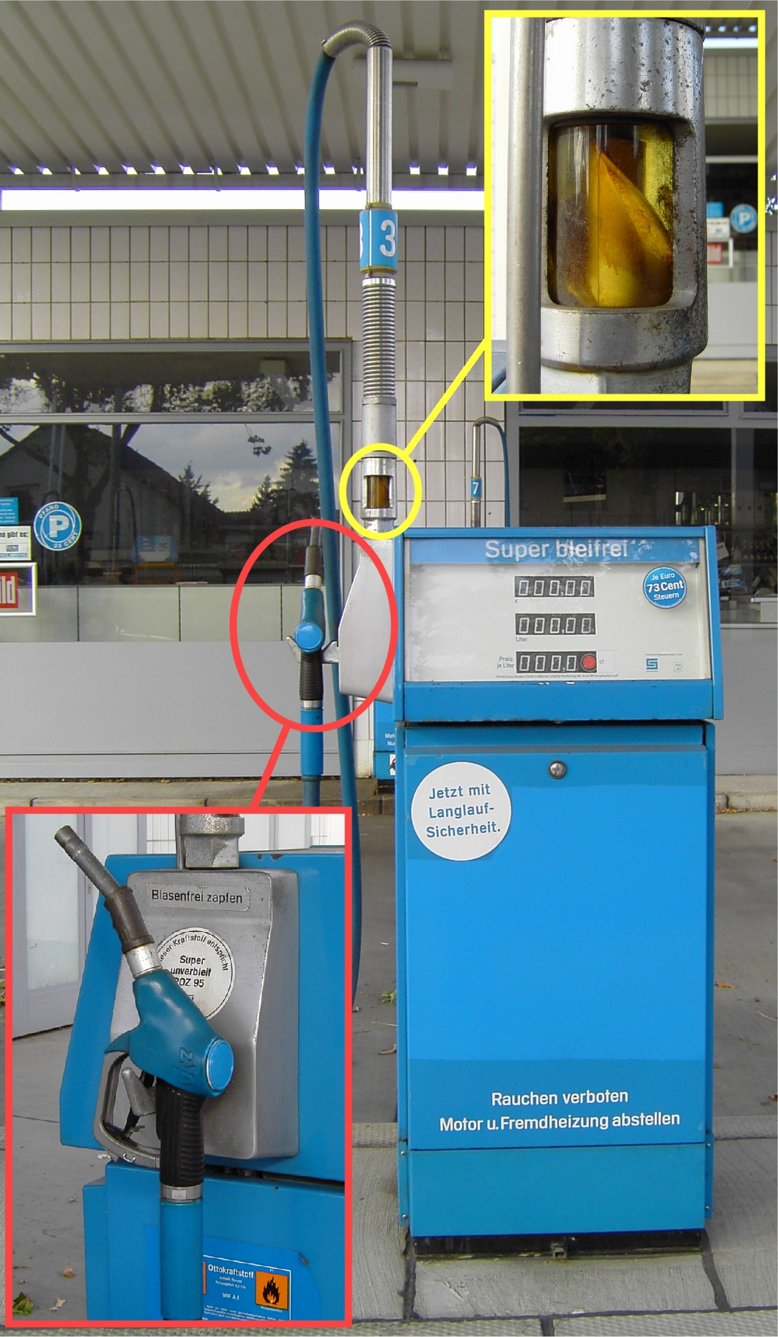 Beschreibung: Zapfsäule Quelle: selbst aufgenommen Fotograf: CrazyD, 05. Juli 2005 Lizenzstatus: GNU FDL Description: Petrol pump Source: photo was taken by my self Photographer: CrazyD, 05 July 2005 Licence: GNU FDL